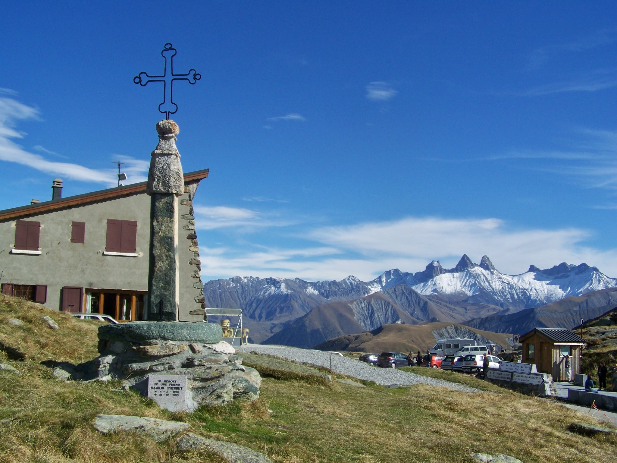 General sight of the col de la Croix de Fer pass, in Savoie, France. Can be seen the iron cross (croix de fer) , the road and roadsigns, and the Aiguilles d'Arves at the background.